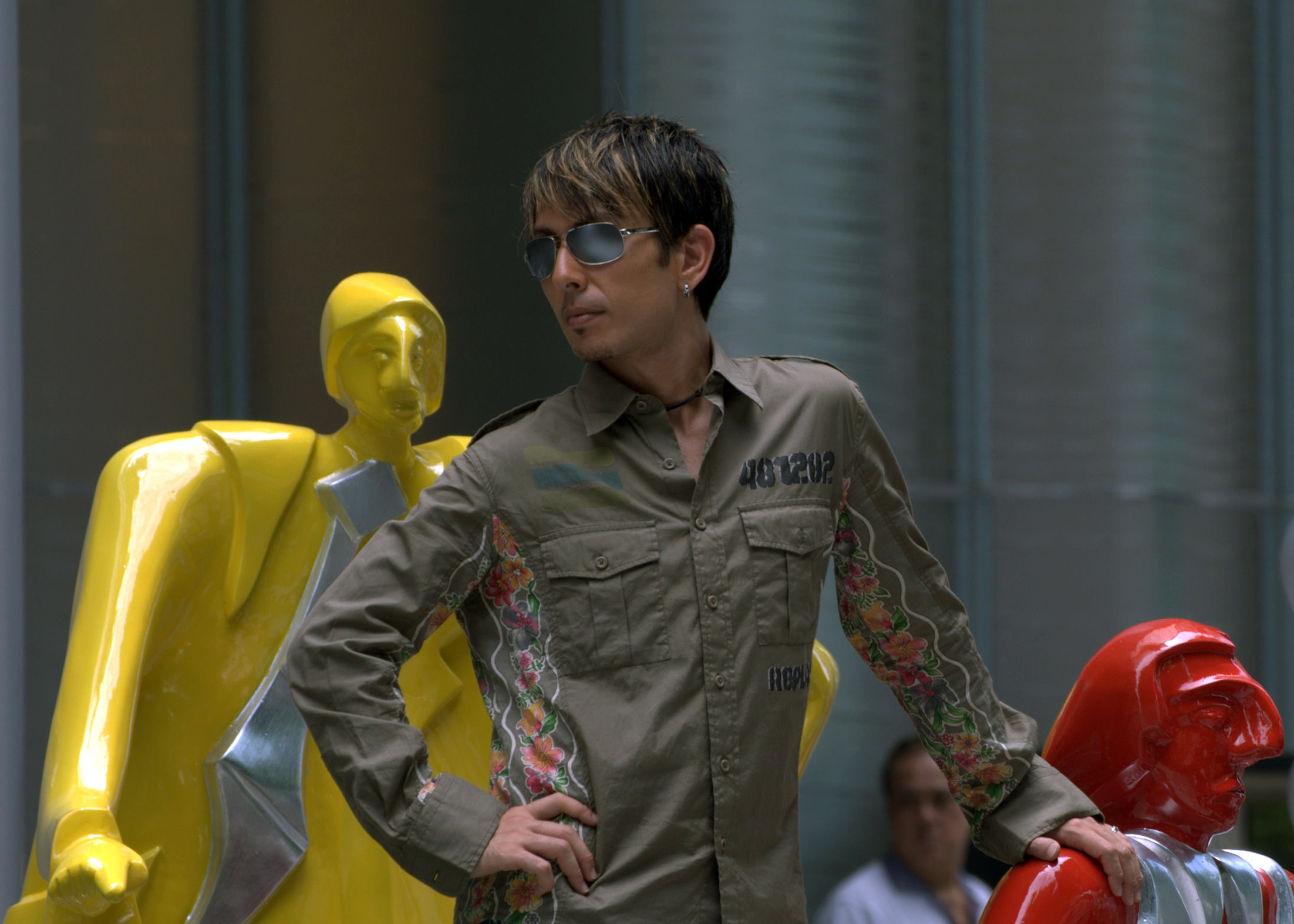 Cyril Takayama outside ION Orchard.